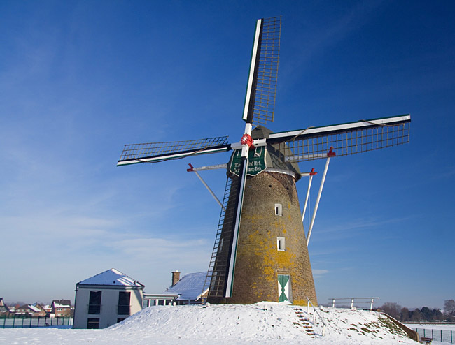 Windmill Waldfeucht Haaren